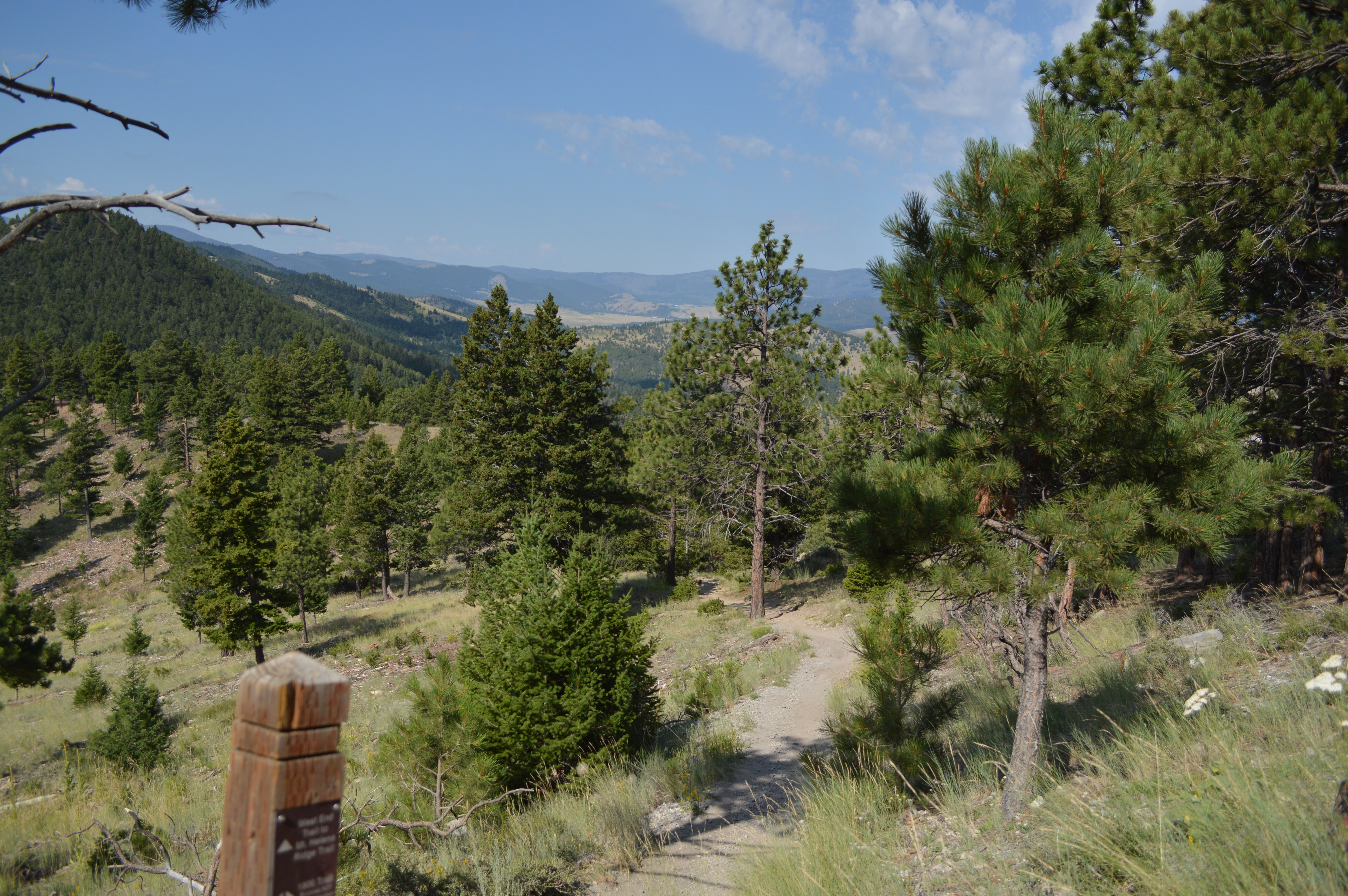 A view of the West End Trail at Mount Helena City Park, looking from the start of the trail in July 2018.